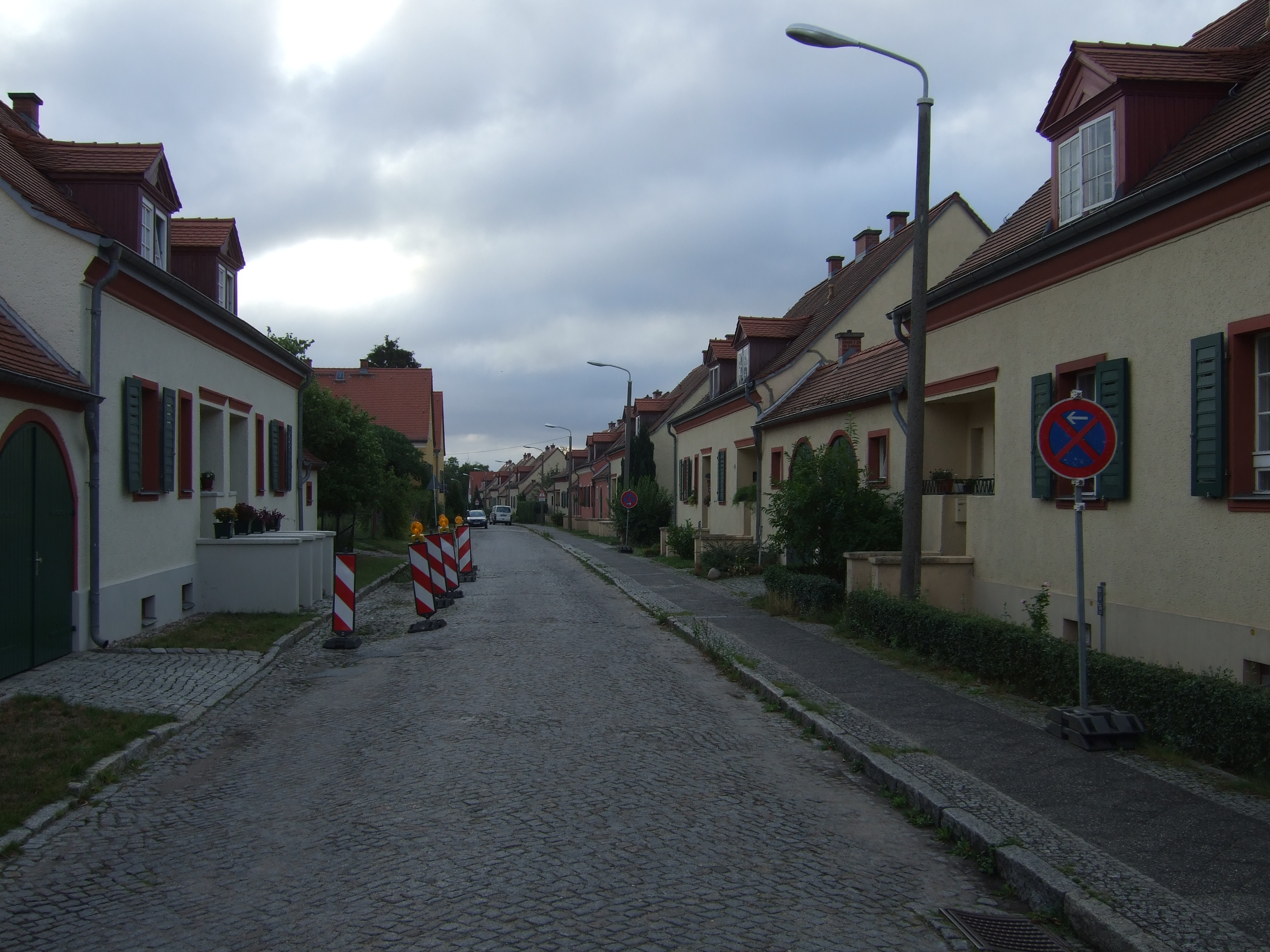 Cultural heritage memorial Wohnsiedlung Paulinenhof, Frankfurt (Oder), Germany.